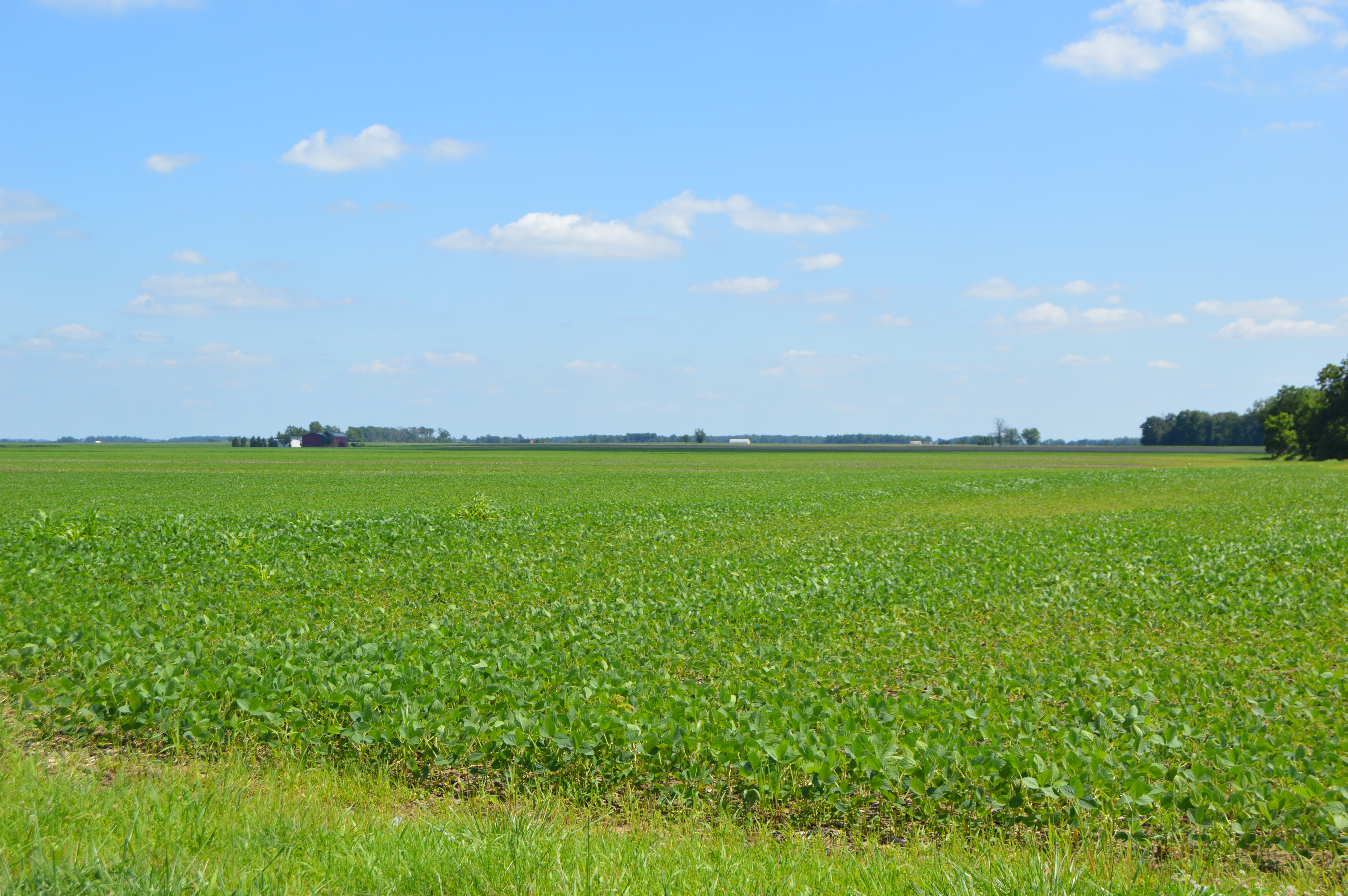 A soybean field in far eastern York Township, Van Wert County, Ohio, United States, seen looking southeast from Guilford Road south of Venedocia.